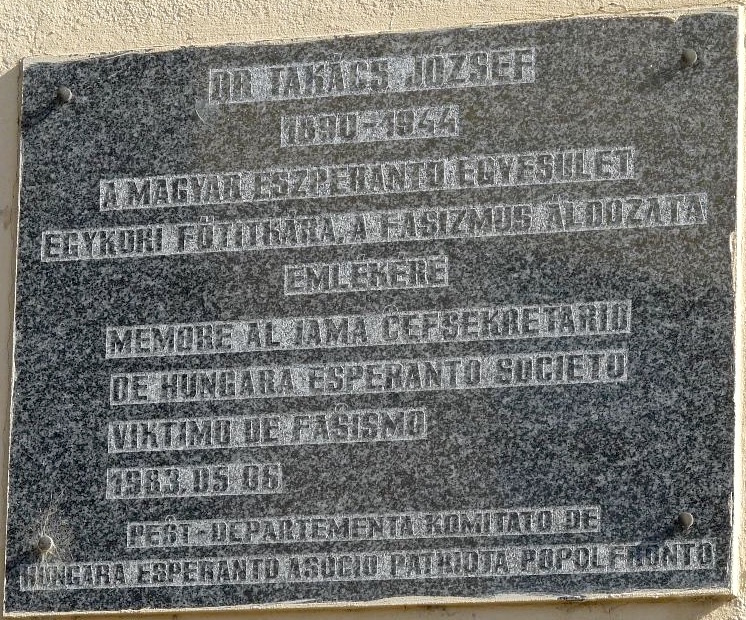 Jozsef Takacs memorial plate in Nagymaros. It contains no original art work, just lettering.